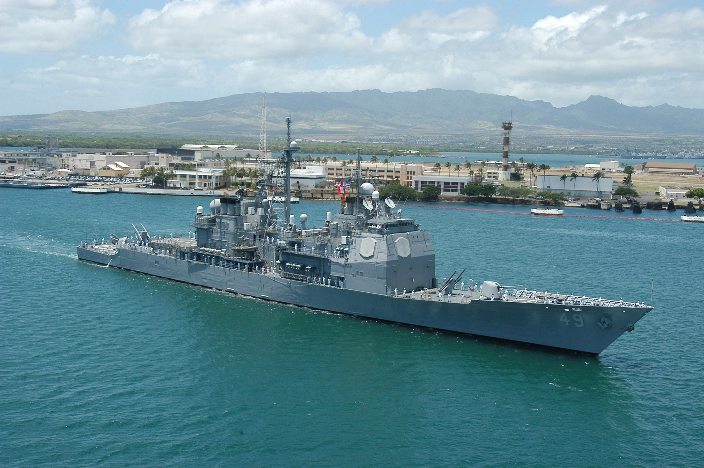 Pearl Harbor, Hawaii (Apr. 15, 2005) - The guided missile cruiser USS Vincennes (CG 49) pulls into Pearl Harbor, Hawaii for a scheduled port visit. This is Vincennes last port visit before her decommissioning in San Diego, Calif. Vincennes, the third ship in the Ticonderoga-class, was launched the April 14, 1984 and commissioned in July 1985. U.S. Navy photo by Photographer's Mate 1st Class Robert C. Foster Jr. (RELEASED)